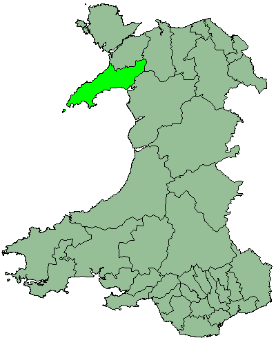 Wales - Dwyfor District - 1974